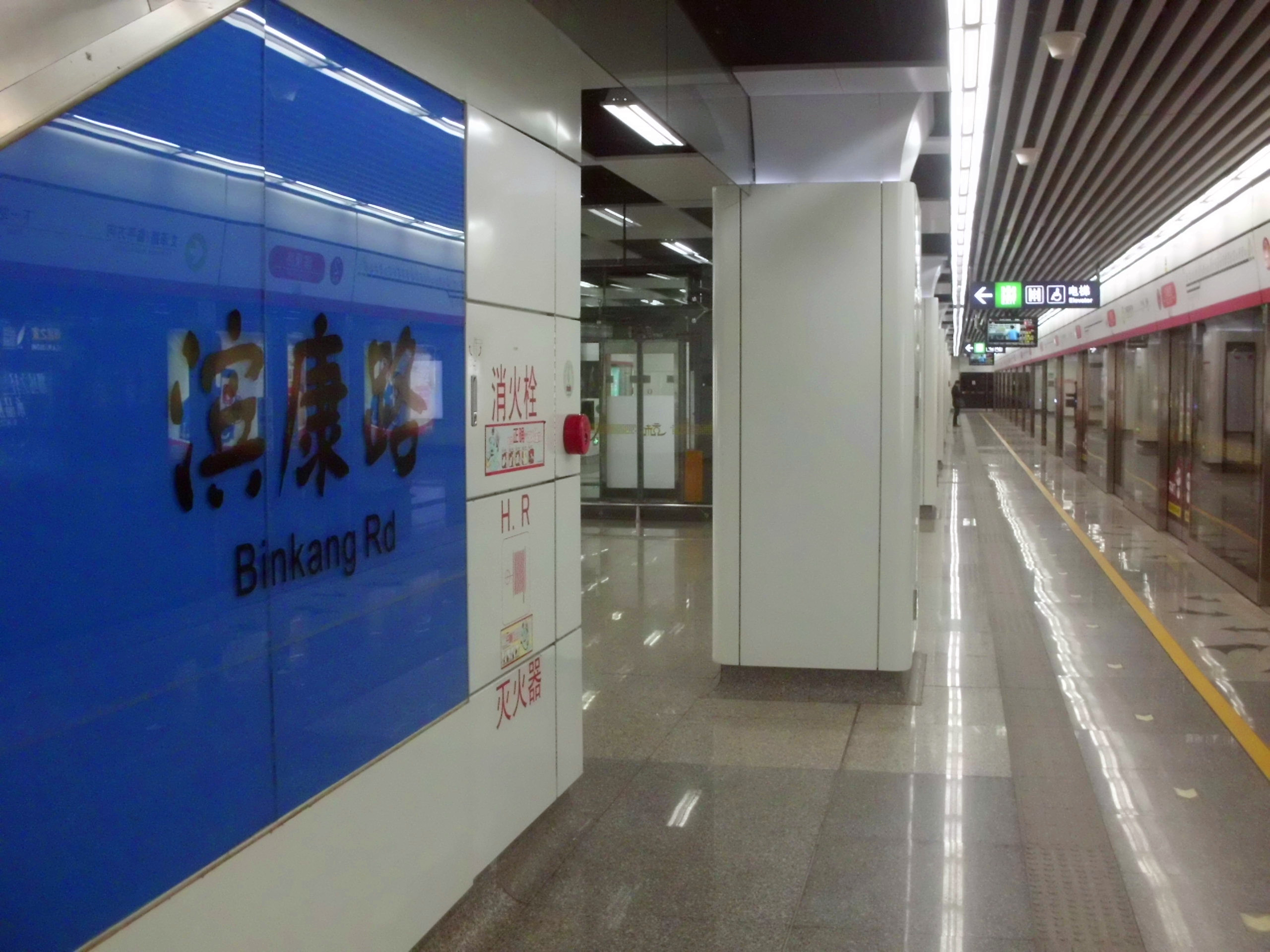 Binkang Road Station